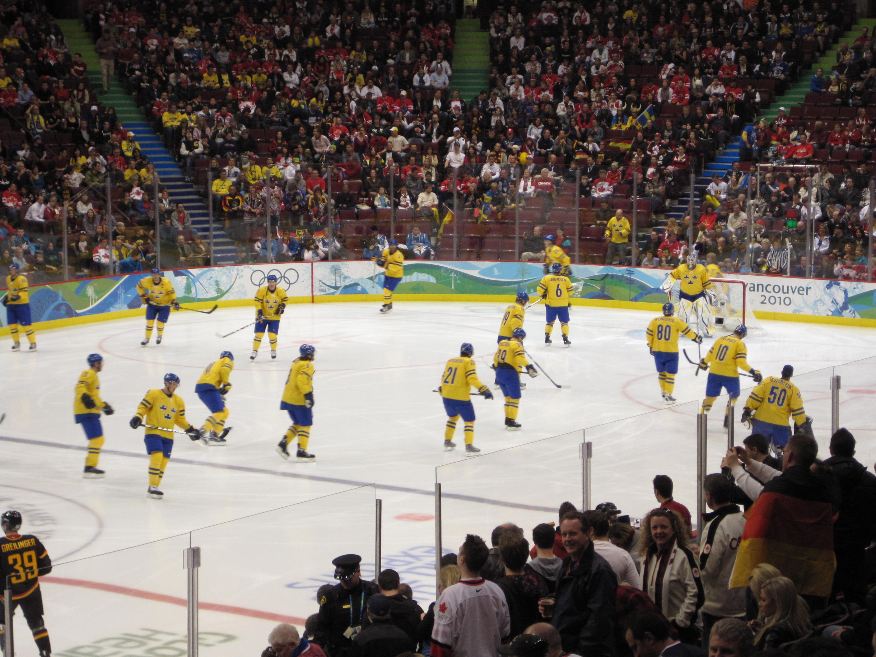 Men's Hockey Sweden v Germany at the 2010 Winter Olympics